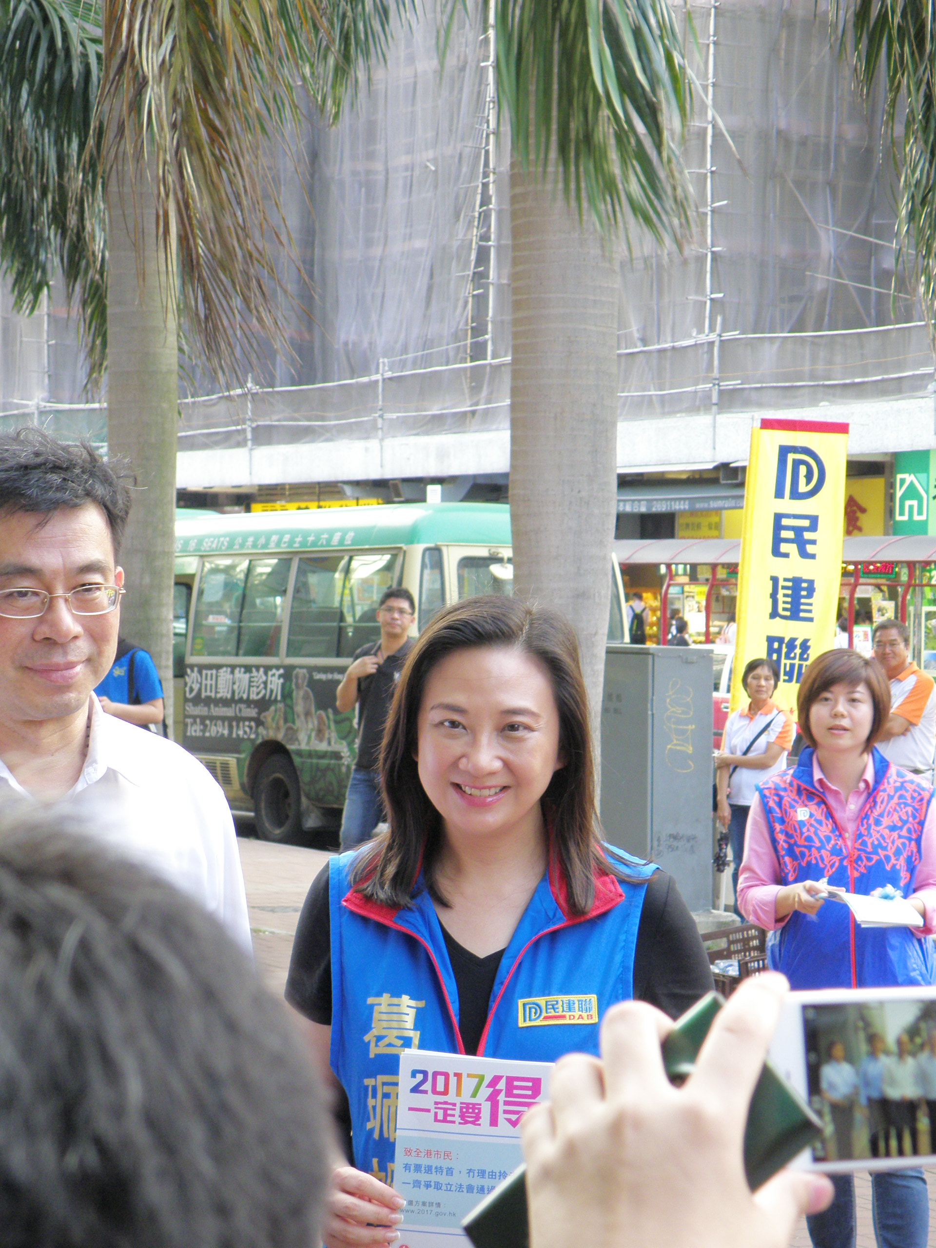 Elizabeth Quat Pui-fan, member of the Hong Kong Legislative Council and Democratic Alliance for the Betterment and Progress of Hong Kong (DAB).